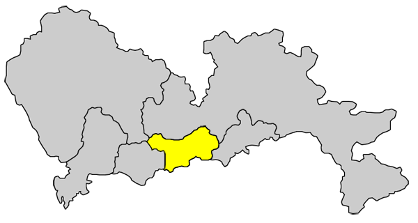 Location of Luohu District, Shenzhen